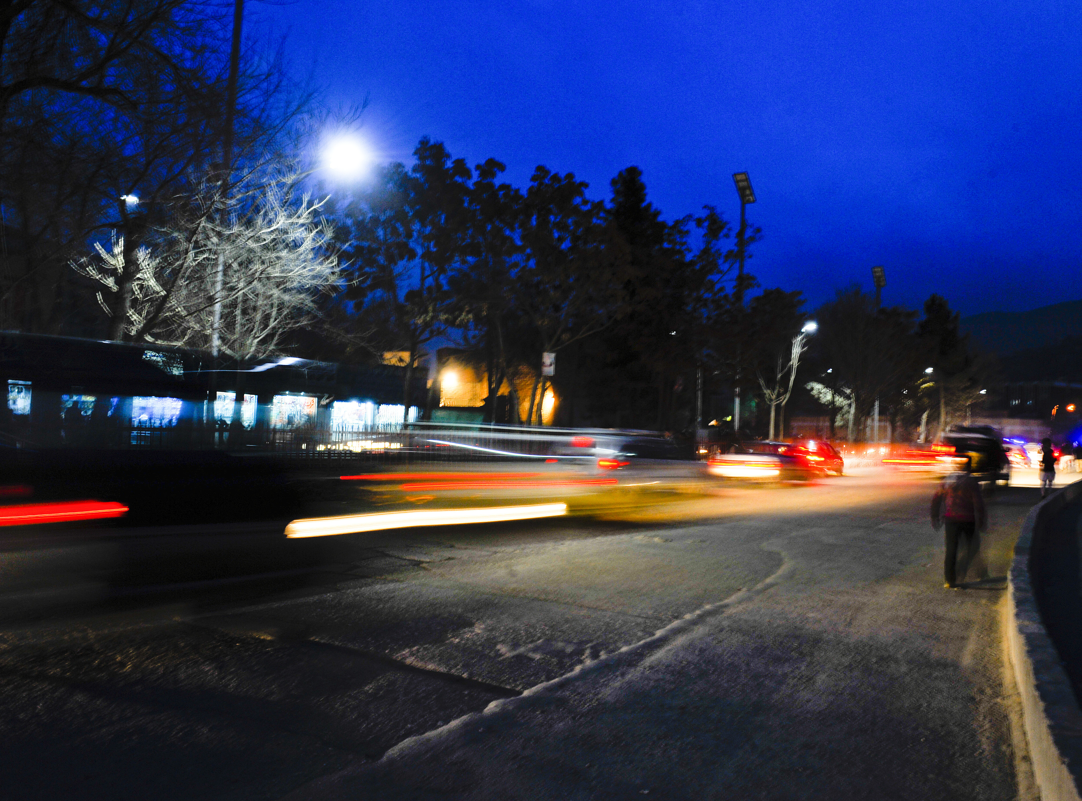 An Afghan walks down a busy street lighted by new solar power street lights in Kabul, Afghanistan, Dec. 29, 2010. The street lights are part of the Kabul Solar Street Light Project and it's main goal is to boost economic development in downtown Kabul by creating a safer environment for nighttime commerce. (ISAF photo by U.S. Air Force Staff Sgt. Joseph Swafford/released)